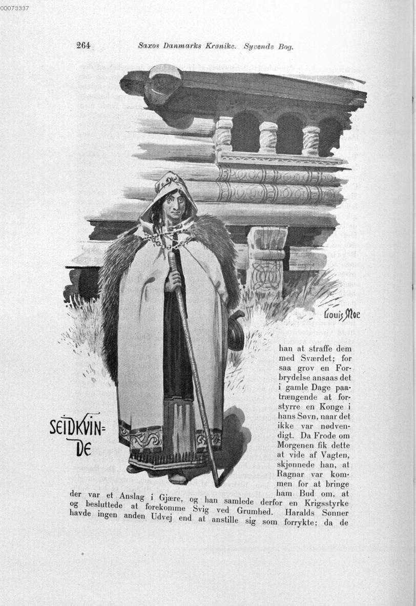 Saxo Grammaticus: Danmarks Krønike (Gesta Danorum) - tr. Frederik Winkel Horn (Danish) - illust. Louis Moe (1898)